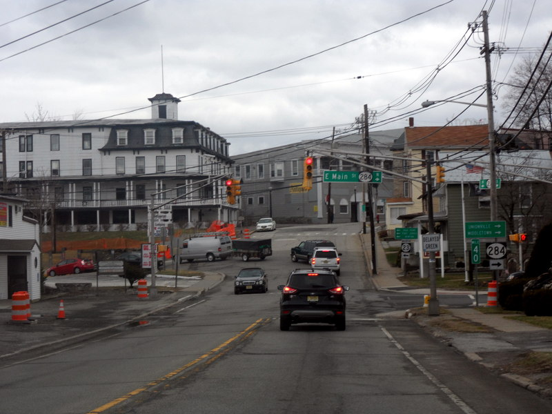 Downtown Sussex, NJ